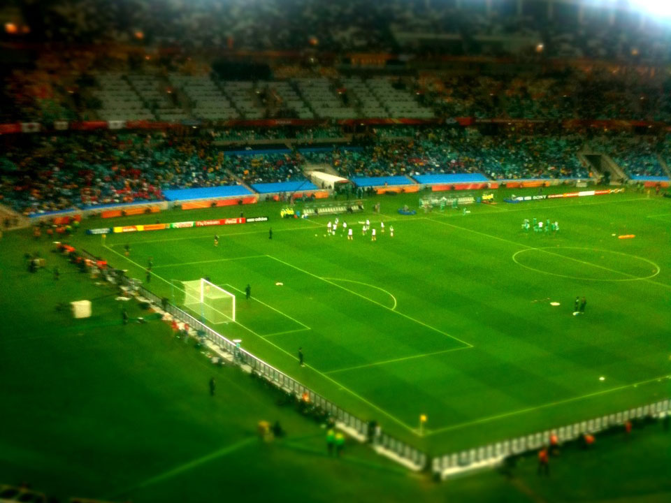 Teams before the game between South Korea and Nigeria at FIFA World Cup 2010, 22 June 2010, Moses Mabhida Stadium, Durban